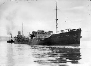 Shipping losses: Eagle Oil and Shipping Co 8,073 GRT motor tanker San Demetrio proceeding up the Clyde for repairs in November 1940. The damage visible was caused when the ship was attacked by the German pocket battleship Admiral Scheer.